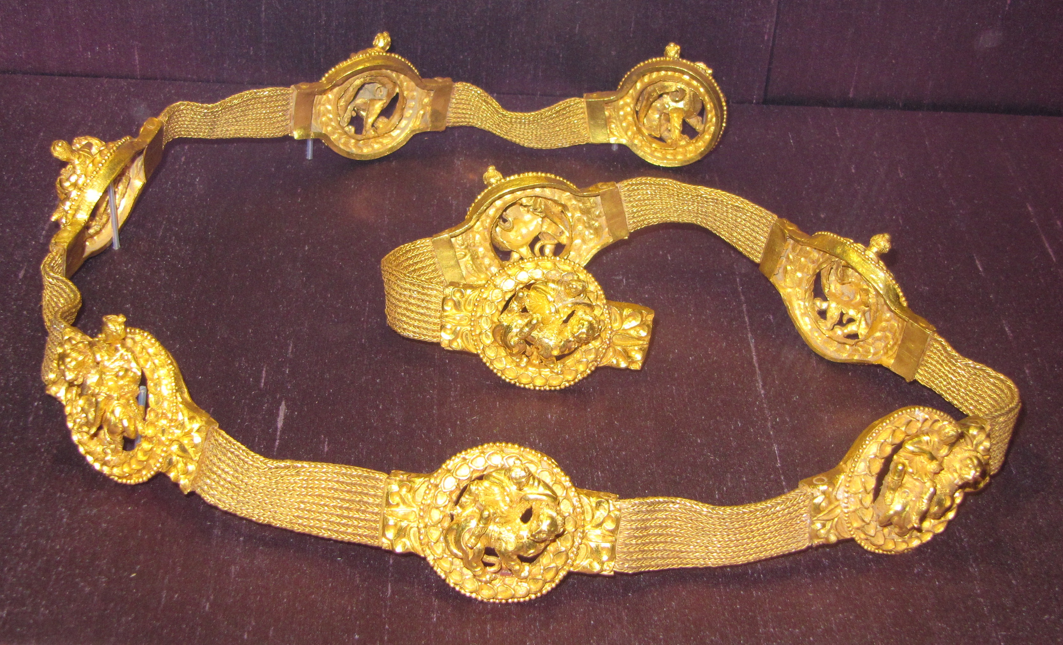 Belt, Tillya Tepe, Tomb IV, Second quarter of the 1st century A.D., National Museum of Afghanistan, Personal photograph 2011, British Museum.